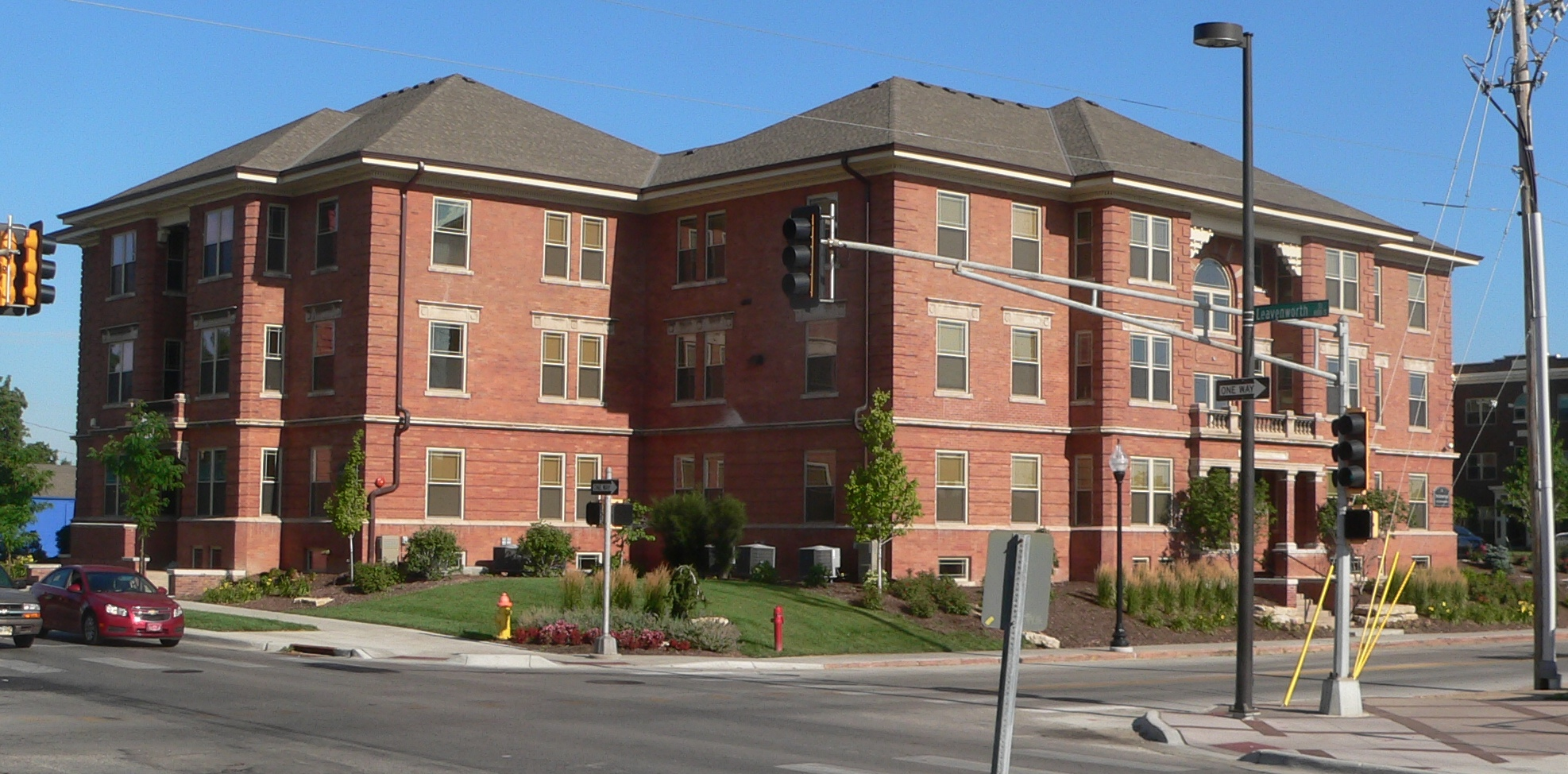 Unitah Flats building, located on north side of Leavenworth Street between Park Avenue and South 30th Street in Omaha, Nebraska. View is from the southeast: the cars at lower left are facing eastward on Leavenworth, across its intersection with Park. The building is part of the Park Avenue Apartment District, listed in the National Register of Historic Places.